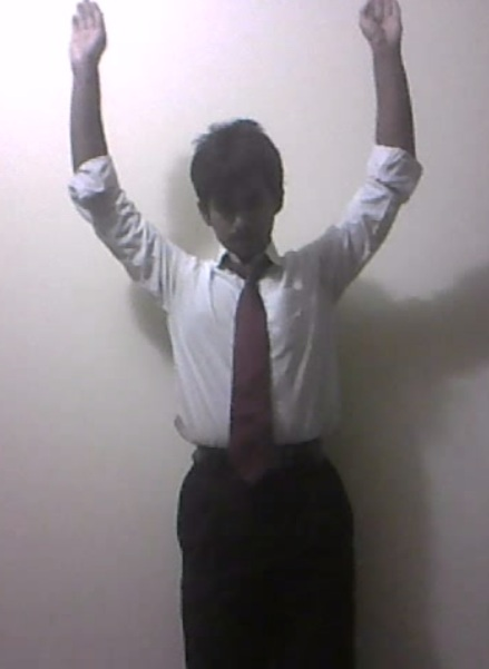 A school boy is getting hands up punishment